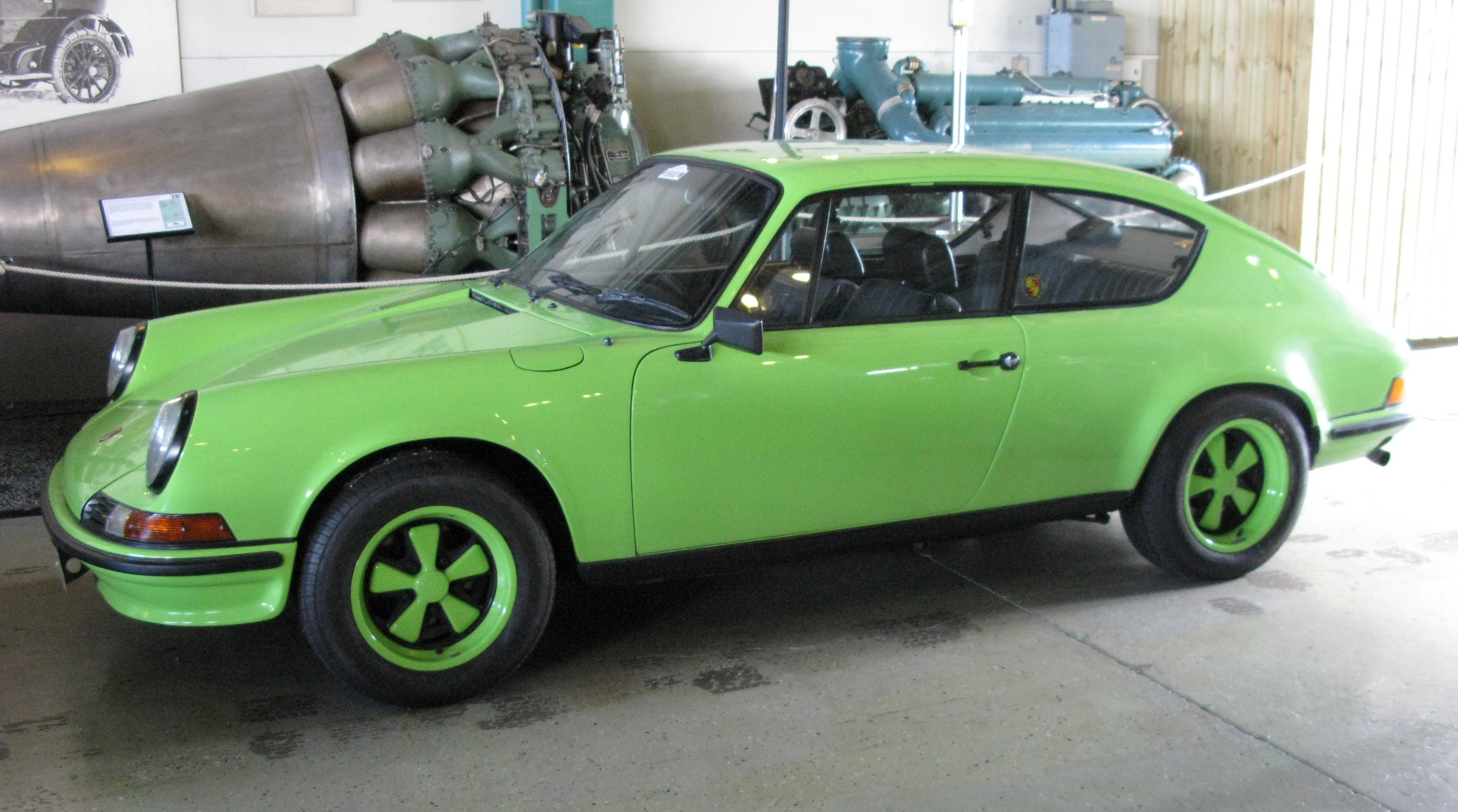 1969 Porsche 911 B17 Pininfarina. One-off Porsche 911 four seater built by Pininfarina.